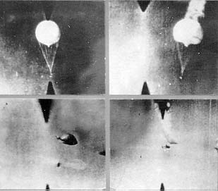 Japanese fire balloons shot down near Attu in the Aleutians shown on gun cameras. P-38 in lower right frame.